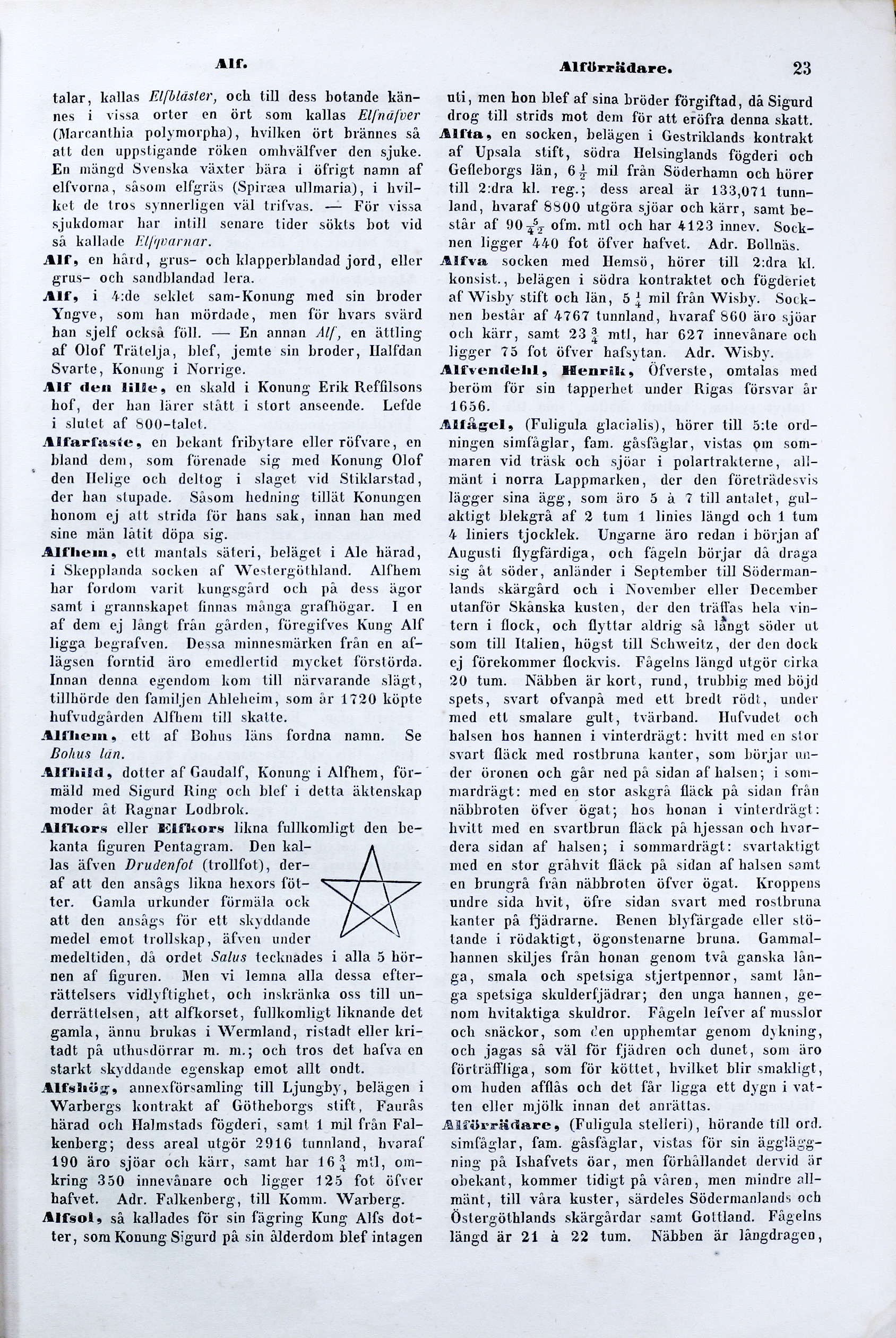 Page 23, volume 1 of Svenskt konversationslexikon (4 volumes, 1845-1852), a Swedish encyclopedia.